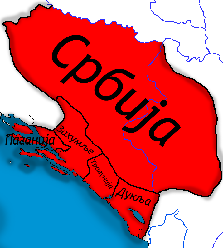 Serbia under Vlastimir.